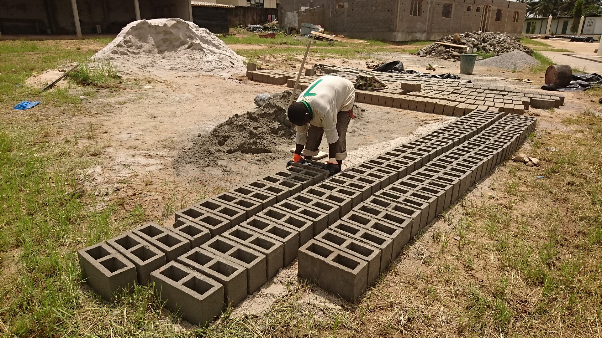 This is an image of "African people at work" from Ivory Coast